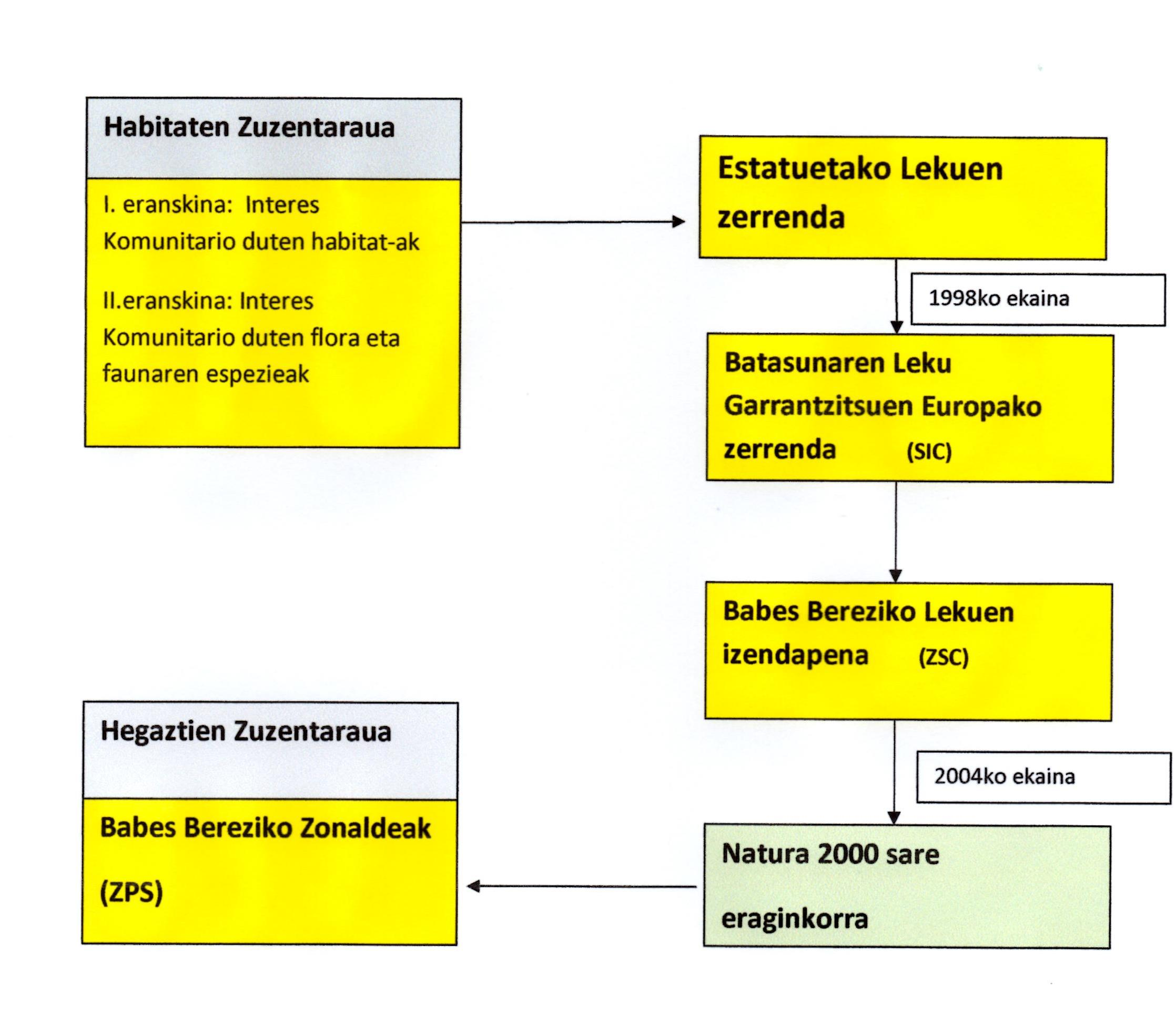 Natura 2000